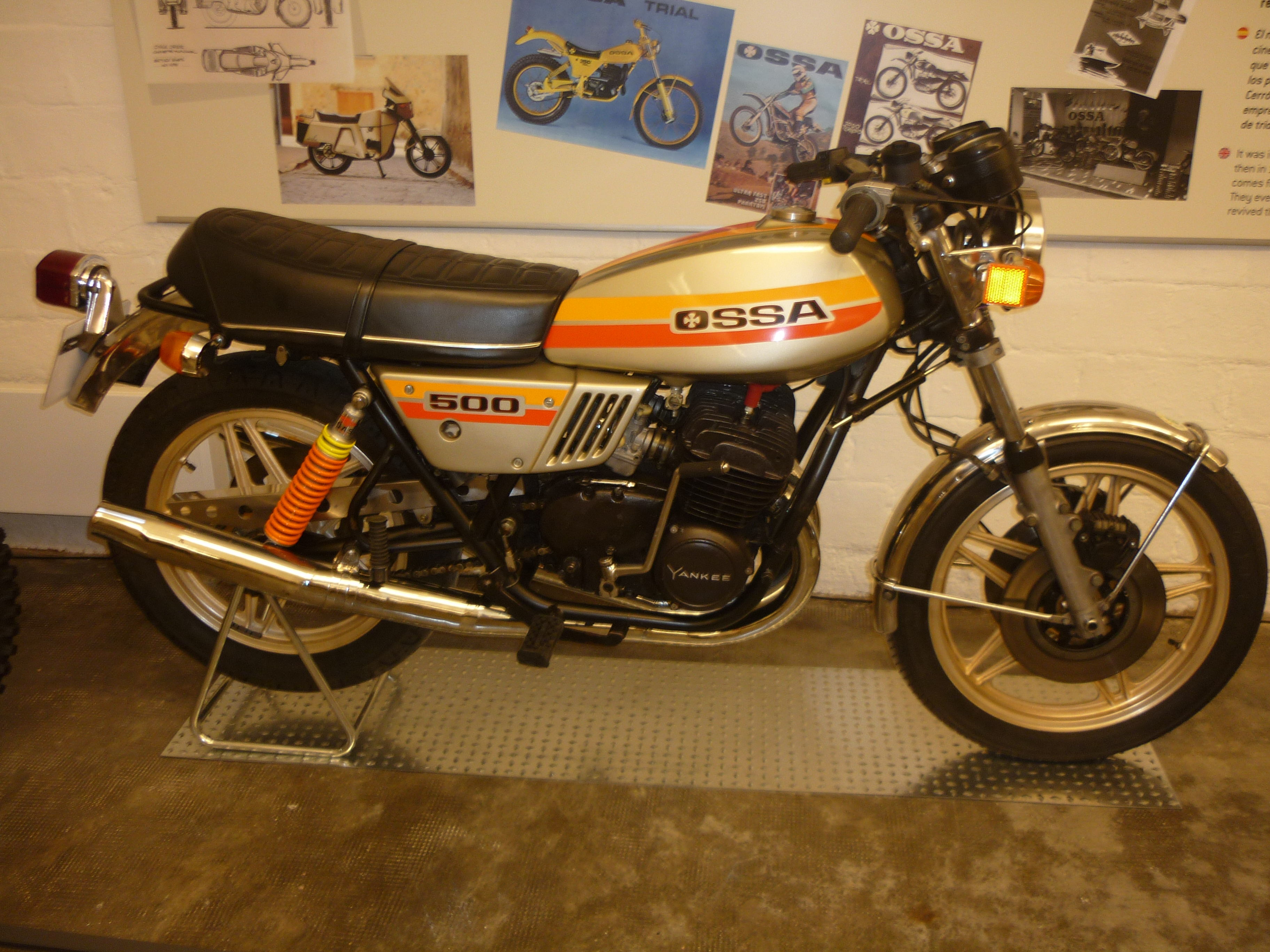 "OSSA 500" street version, 488 cc (1976) .The first Ossa 500, the off-road Yankee 500 "Z" models, were made in USA in 1972 and 1973 by the Yankee Motor Company with special engines manufactured in Spain.Museu de la Moto de Barcelona (Catalonia).